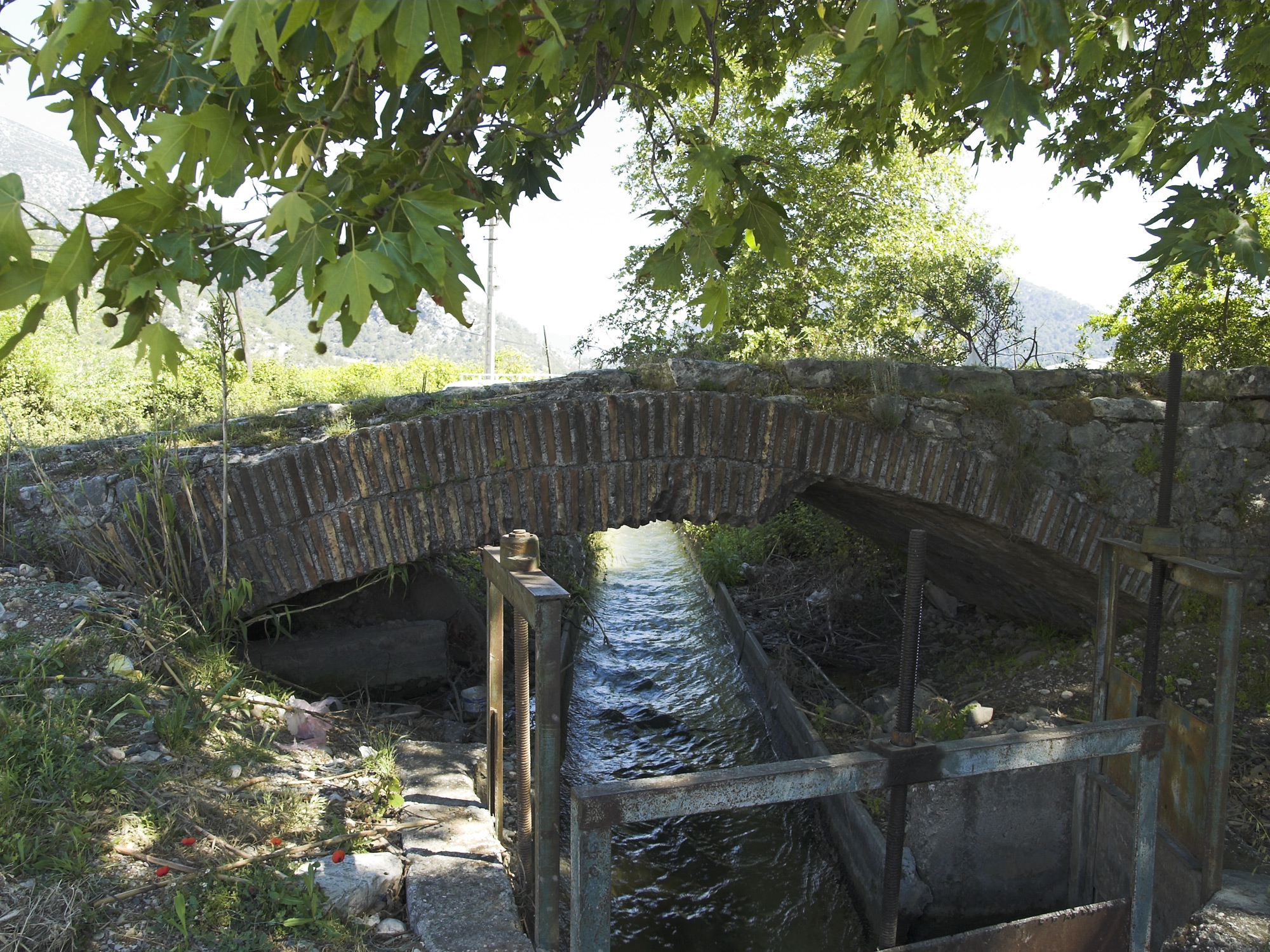 The Roman Bridge near Limyra, Lycia, Turkey. First arch from SW. The late antique structure is one of the oldest segmental arch bridges in the world. The 360 m long bridge crosses on 28 arches the Alakır Çayı, 26 of which being segmental arches with an average span to rise ratio of 5.3 to 1. Today, the structure is buried up to the vaults by river sedimentation.